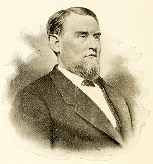 portrait from The Confederate reveille: memorial edition. Raleigh: Broughton & Edwards. 1898. page 54.